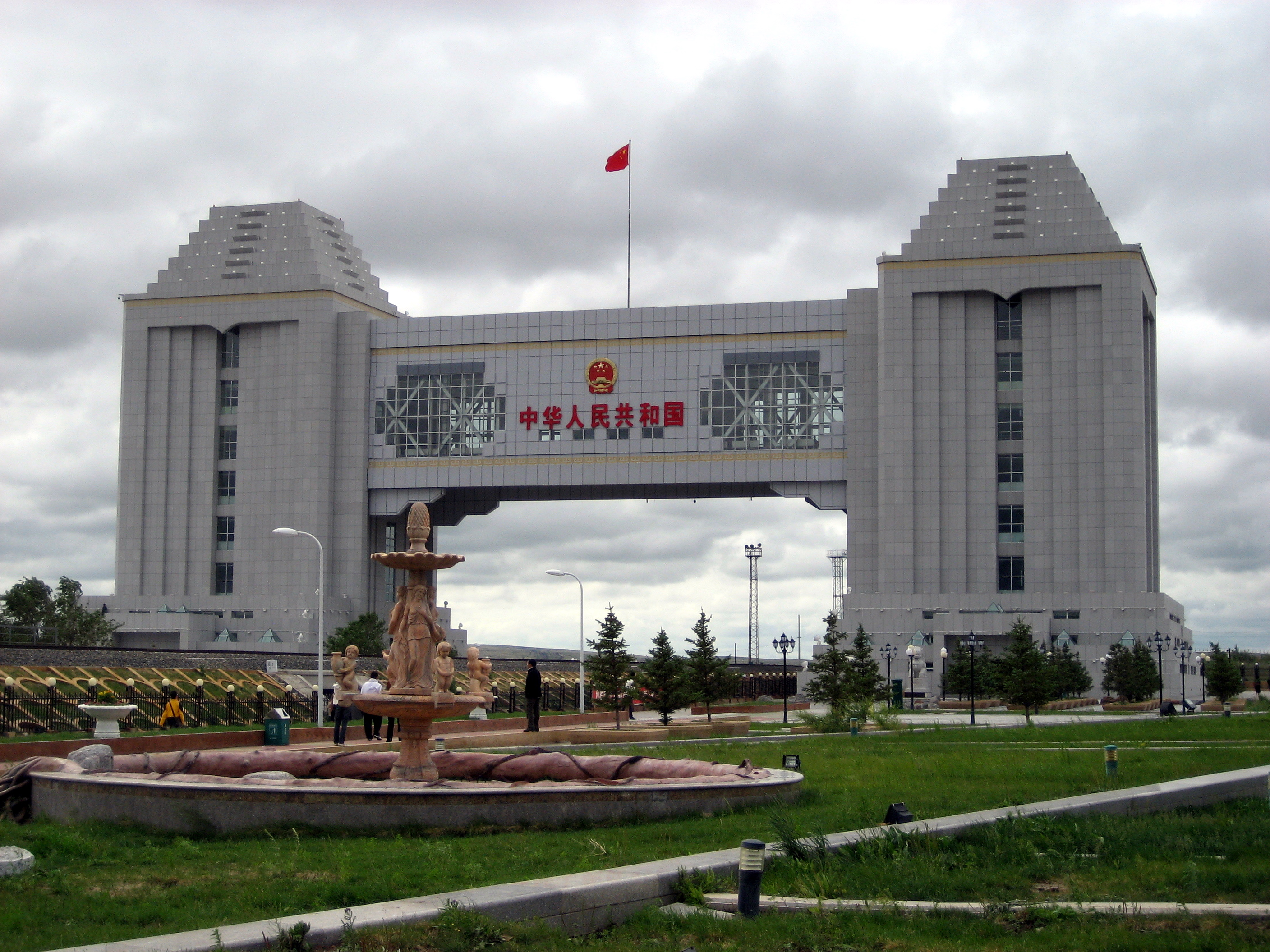 The Chinese border gate into Russia at Manzhouli